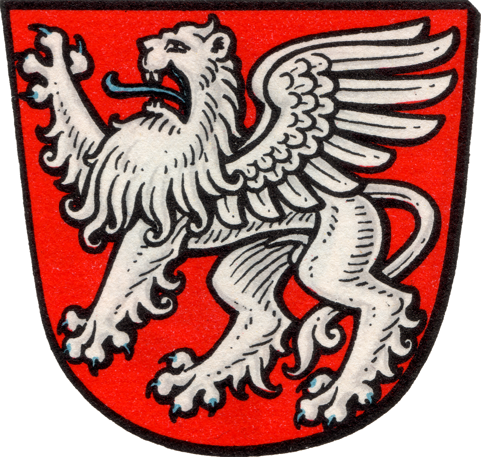 Coat of Arms of Erbach, part of Eltville